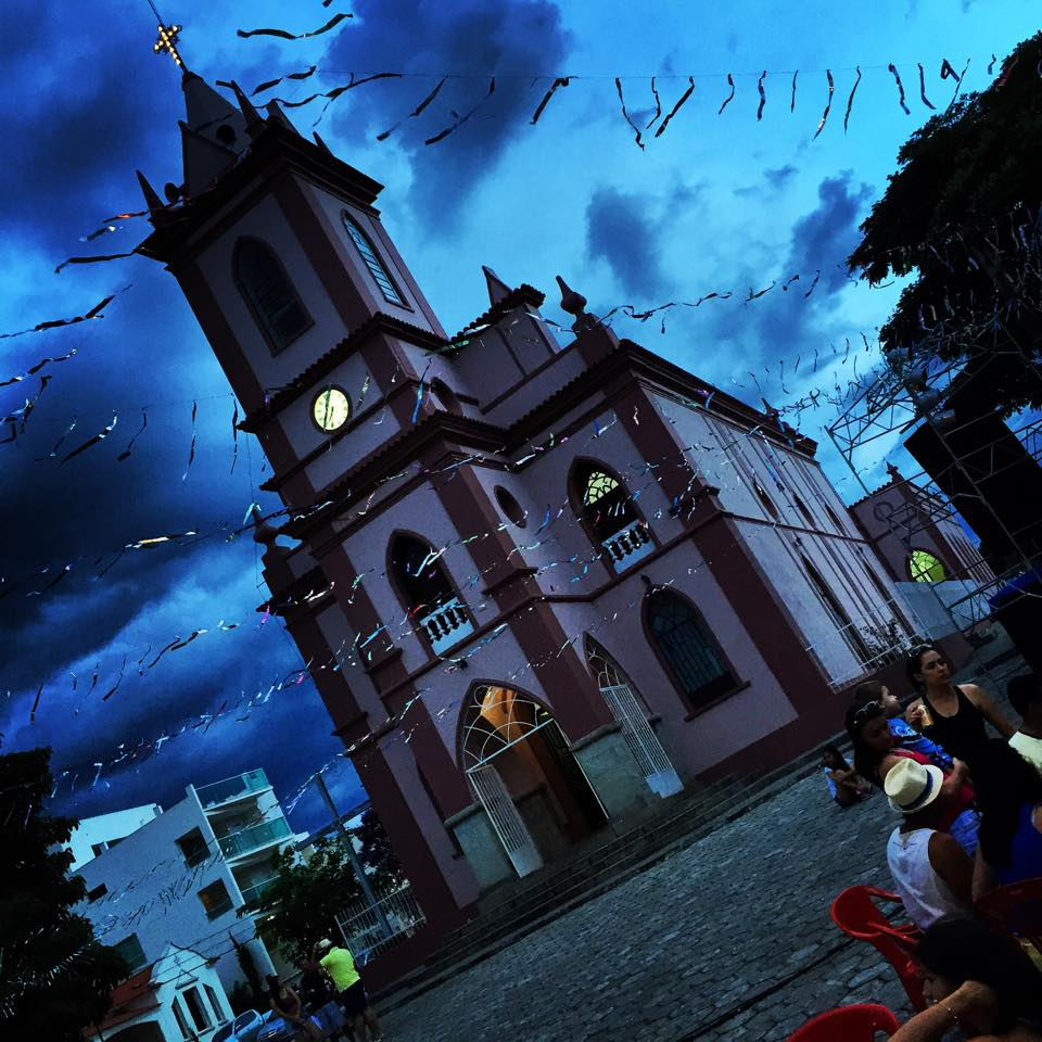 Foto da Matriz de São Tiago